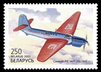 Stamp of Belarus